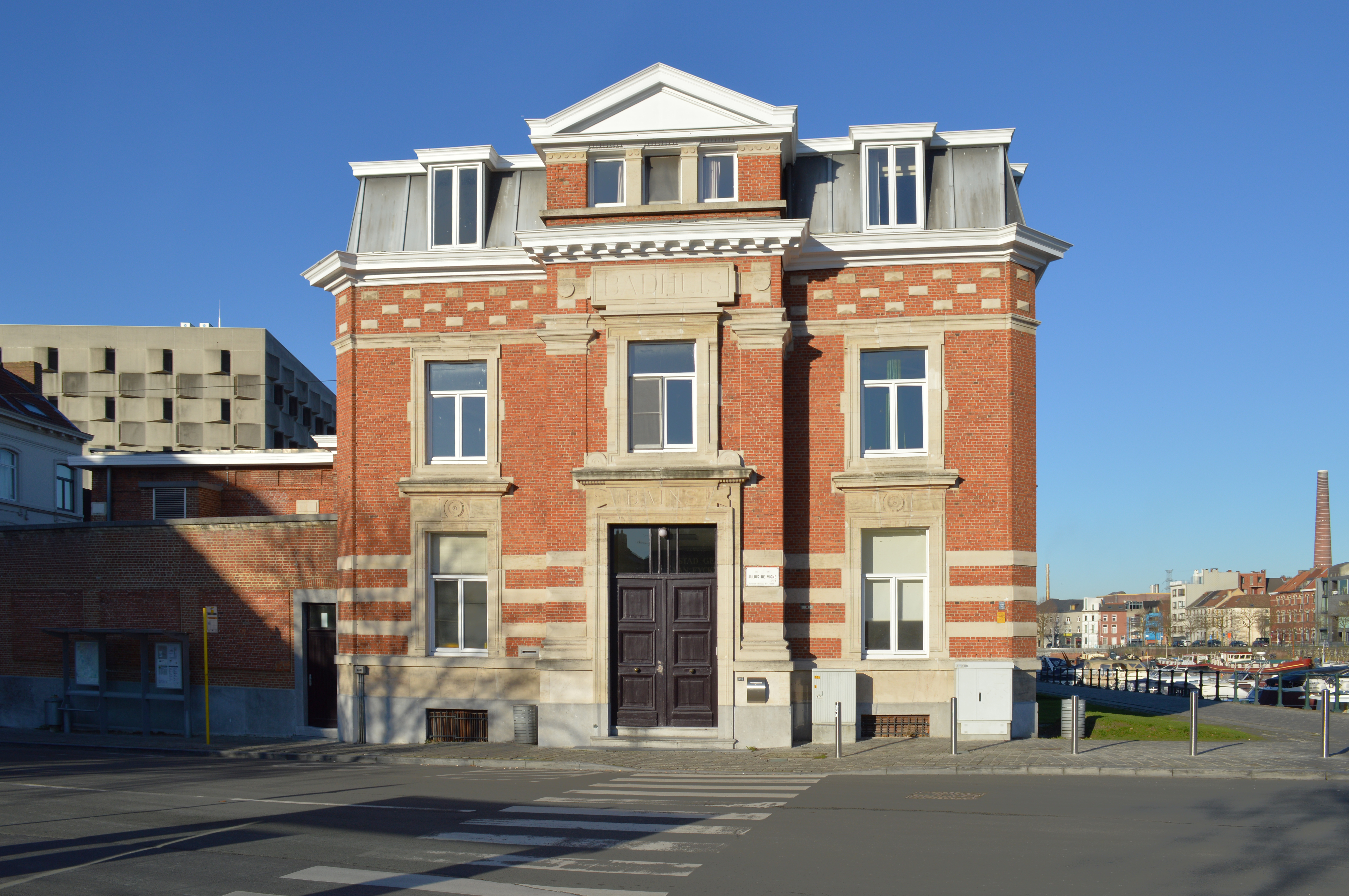 The Van Eyck public swimming pool in Ghent, seen from the Julius de Vigneplein.